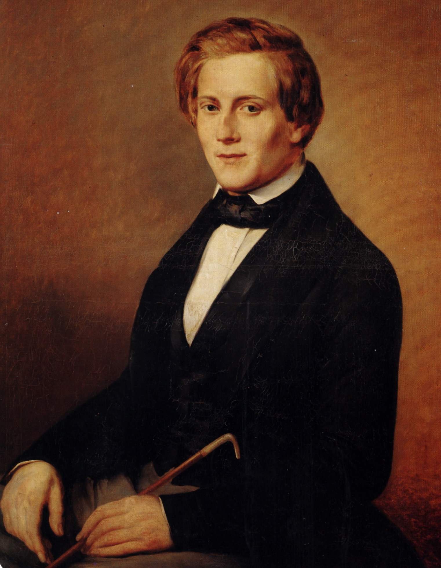 Mathieu Kessels, Portrait by unknow painter, ca 1820-25